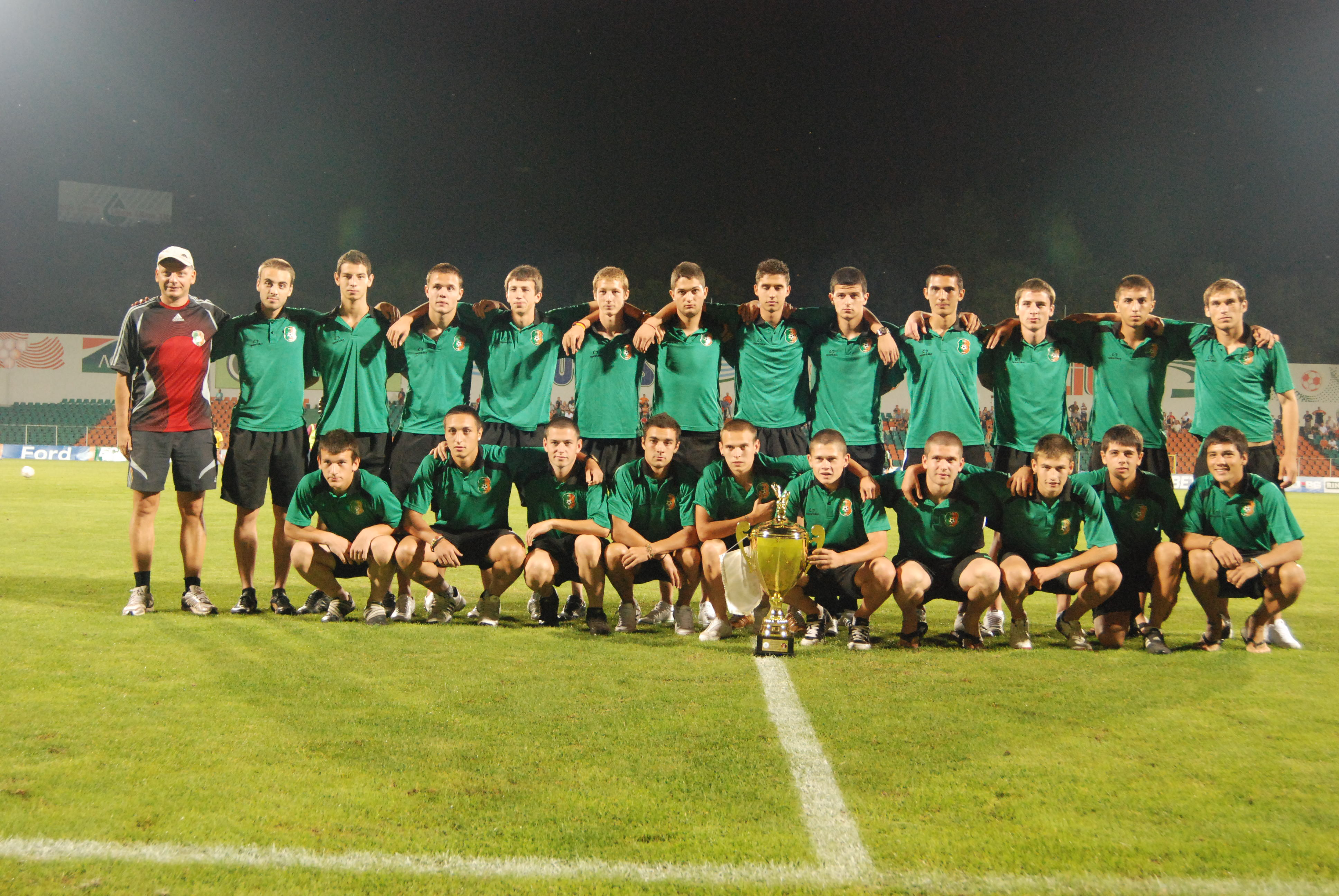 PFC Litex Lovech (Yulian Manzarov Winter Cup 2010)